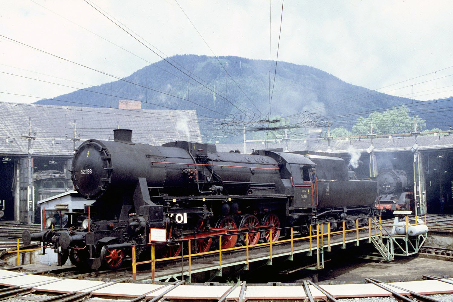 Preserved former ÖBB 52.1198 on the turntable at Selzthal roundhouse during a railway enthusiast's special event.